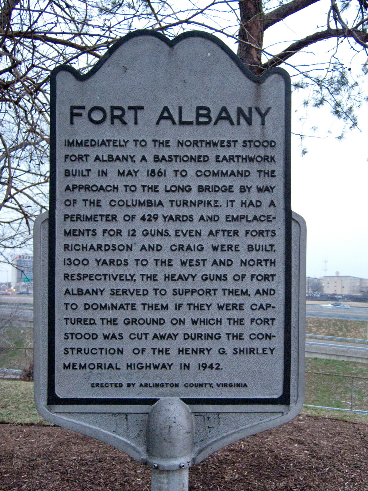 Inscription. Immediately to the northwest stood Fort Albany, a bastioned earthwork built in May 1861 to command the approach to the Long Bridge by way of the Columbia Turnpike. It had a perimeter of 429 yards and emplacements for 12 guns. Even after Forts Richardson and Craig were built, 1300 yards to the west and north respectively, the heavy guns of Fort Albany served to support them, and to dominate them if they were captured. The ground on which the Fort stood was cut away during the construction of the Henry G. Shirley Memorial Highway in 1942.